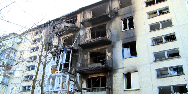 Shelled residential apartment building in Donetsk at 29 Kremlin Ave in October neighborhood, Kuibyshev Raion of Donetsk, 17 January 2015.